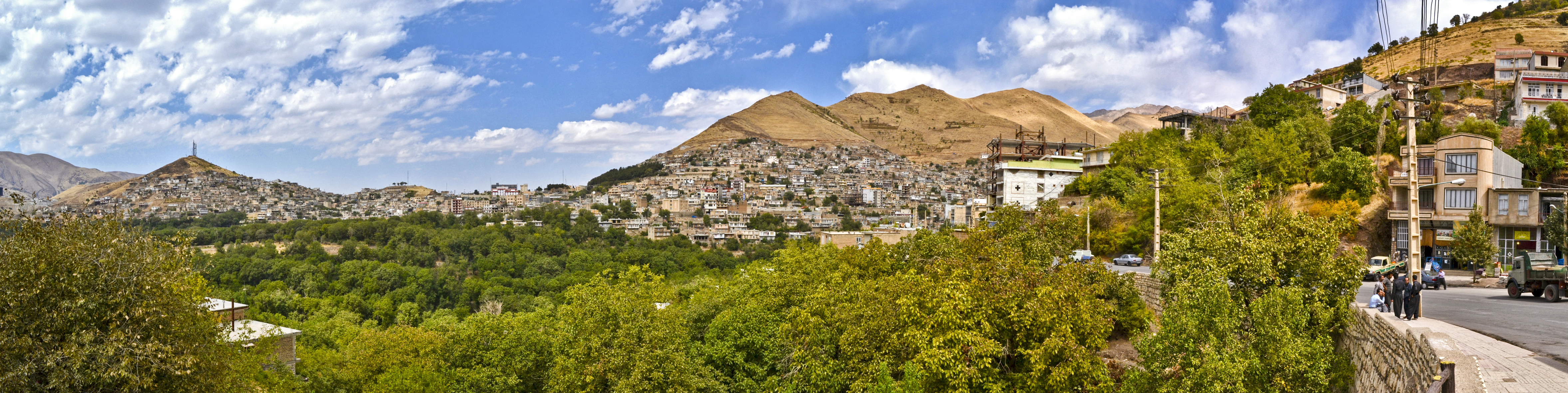 Panoramic photography of Paveh